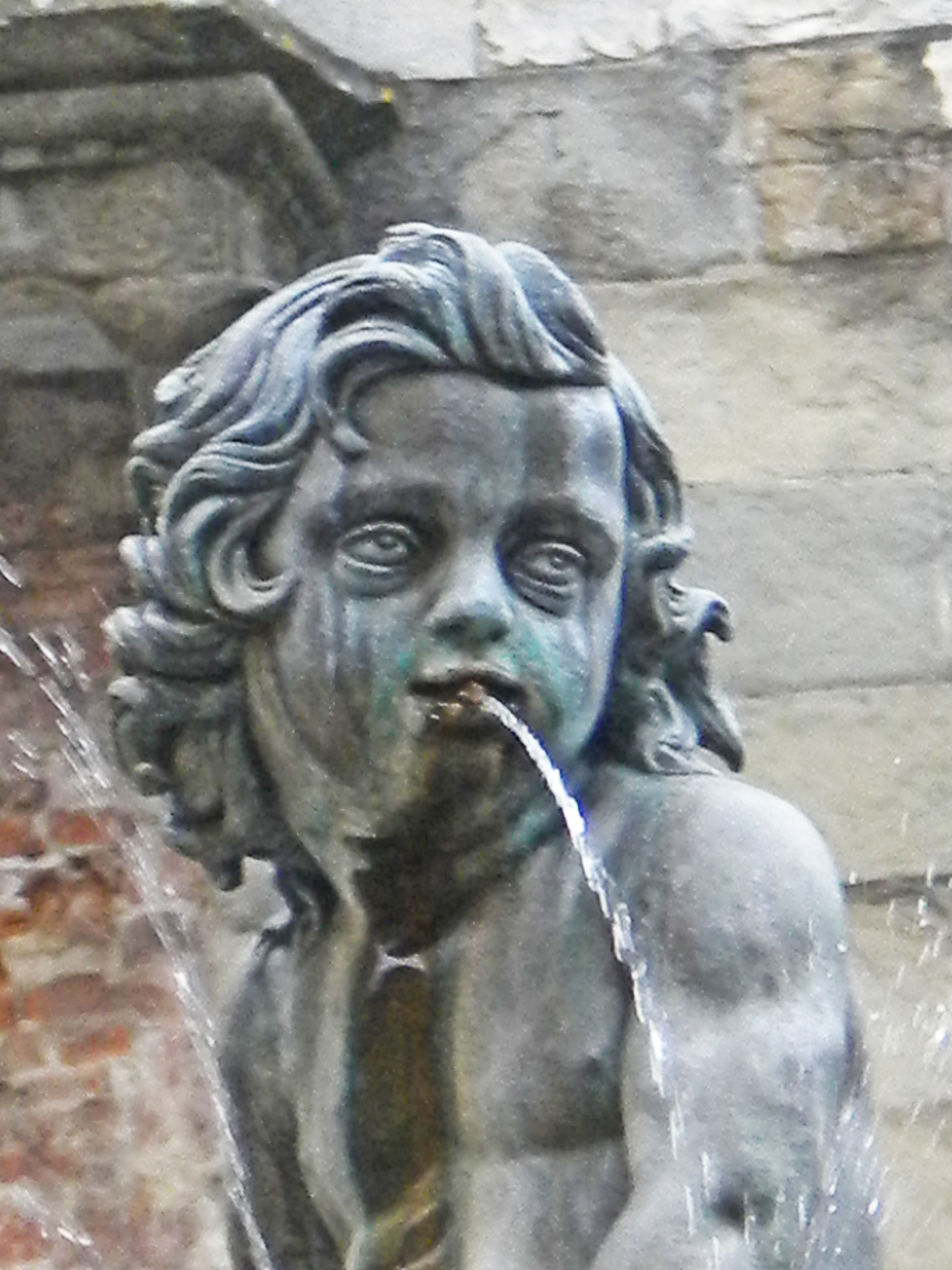 bacchus fountain